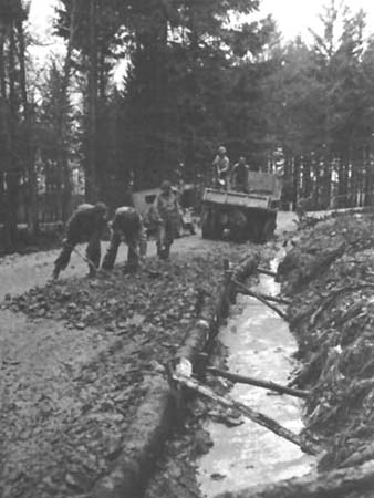 ENGINEERS REPAIR A ROAD in the Huertgen Forest, 25 November